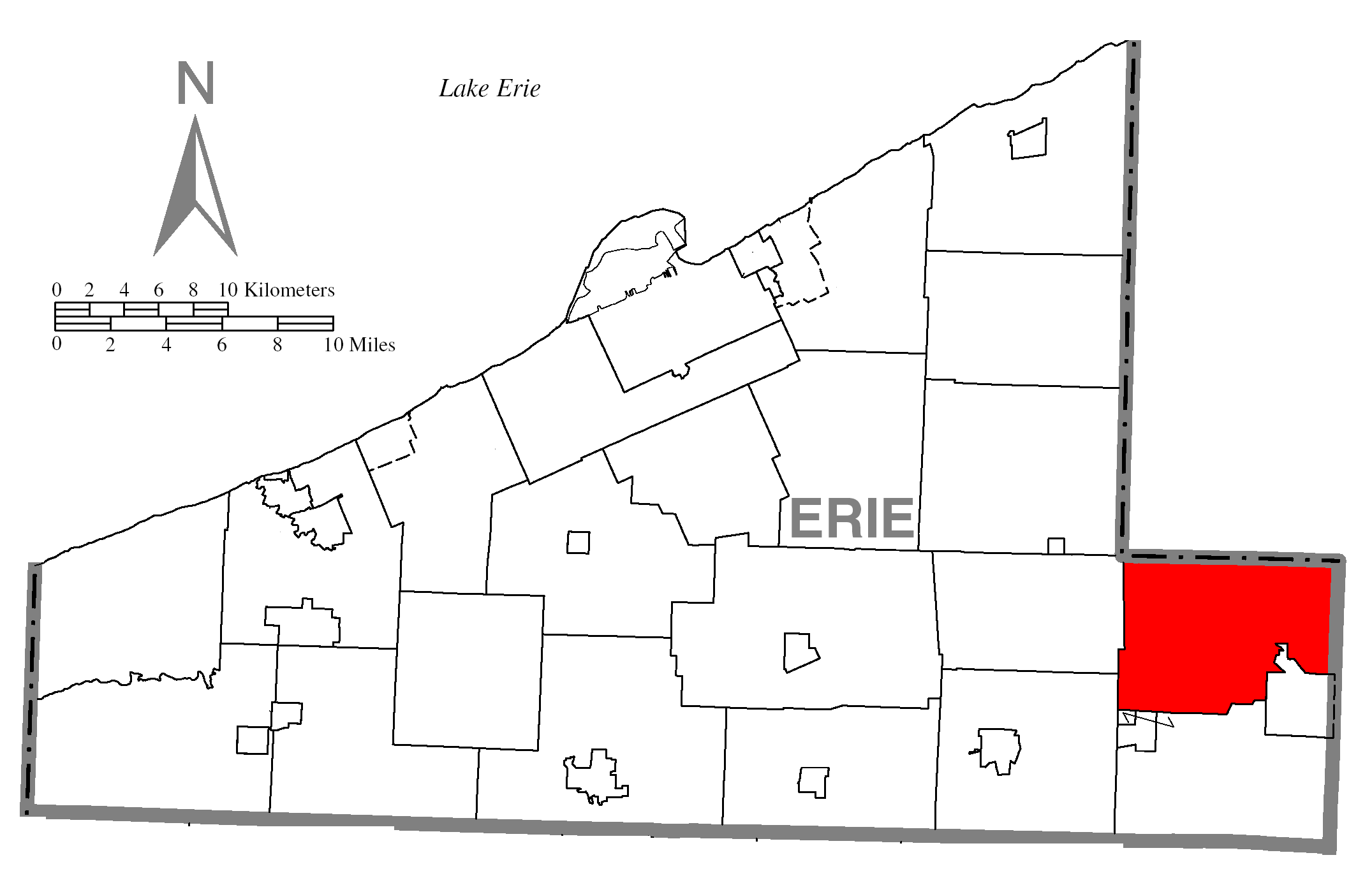 A map of Erie County showing Wayne Township, Pennsylvania (alternate) highlighted on the map.